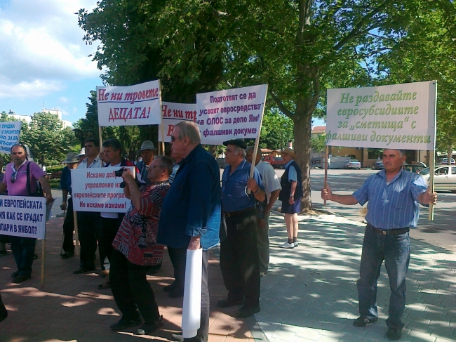 Протести срещу регионално депо Ямбол